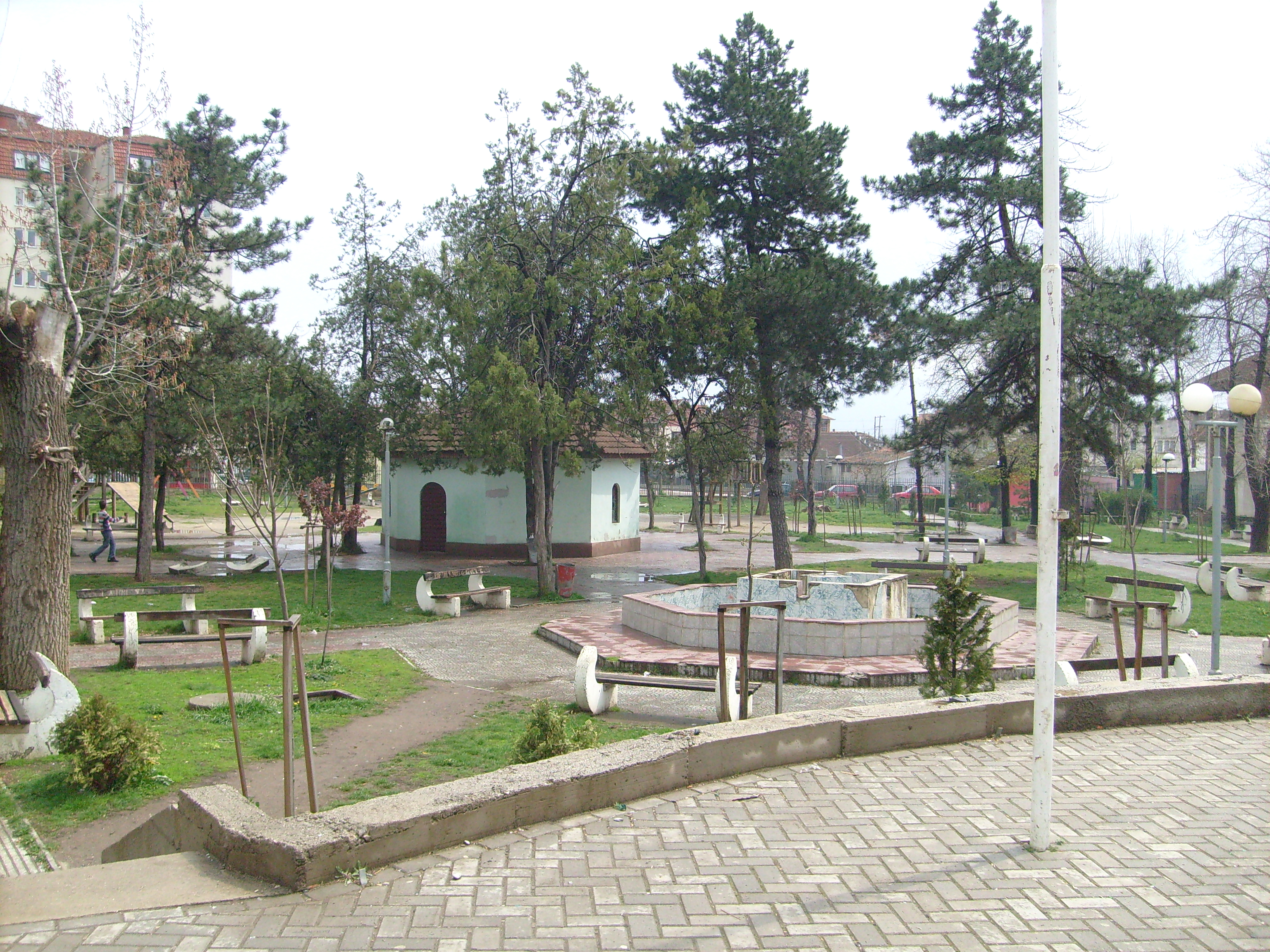 Vucitrn City Park and Tomb (Turbe) of Karabash. (Vučitrn / Kosovo)